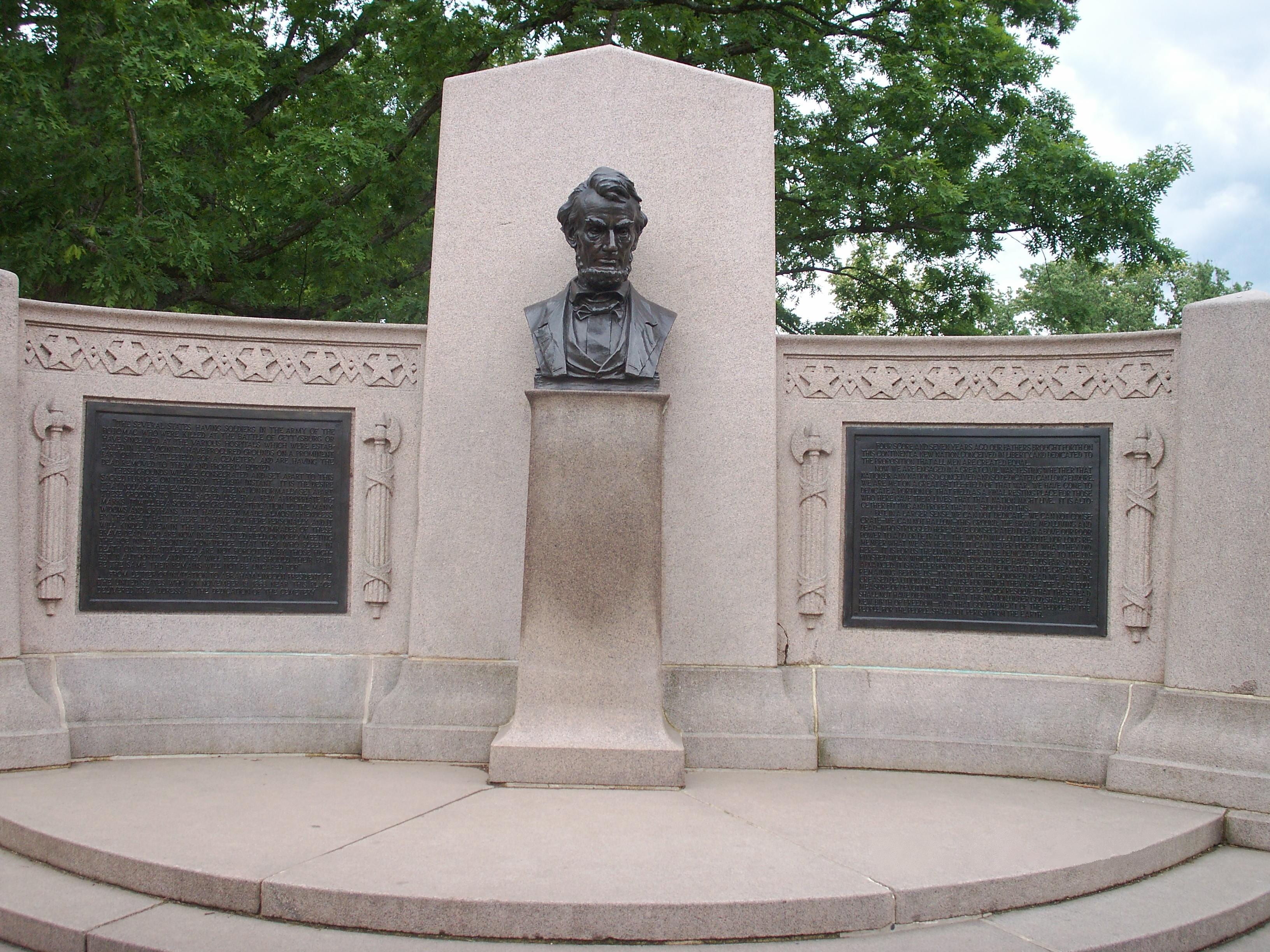 C. John Chavis Watermark badly removed by Ali'i on 20:12, 12, March 2008 (UTC) c. john chavis watermark removed badly by ali'i on 20:12,12 march 2008 (utc) sincerly,kaleigh rowland